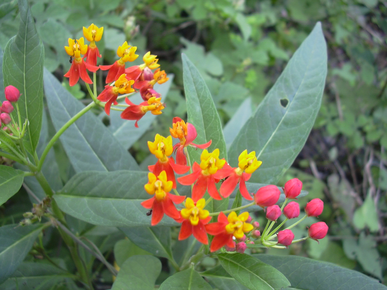 Asclepias curassavica (flowers). Location: Florida, Long Key